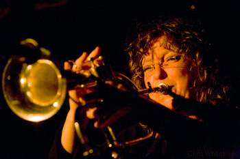 Pam Fleming, New York trumpet and flugel horn player plays Terra Blues on Bleeker Street in New York